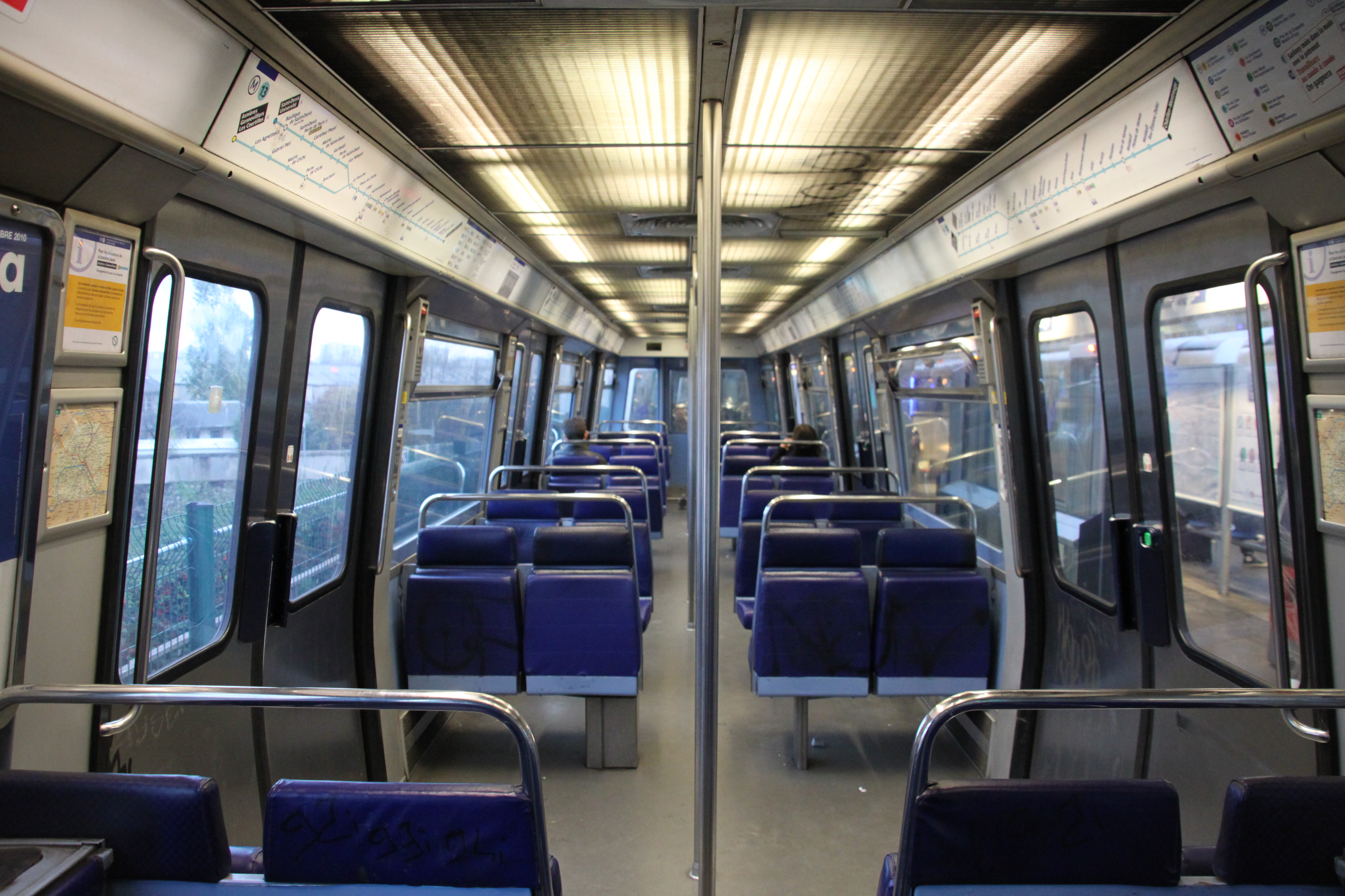 The unrenovated MF77 interior as line 13 in Châtillon - Montrouge.